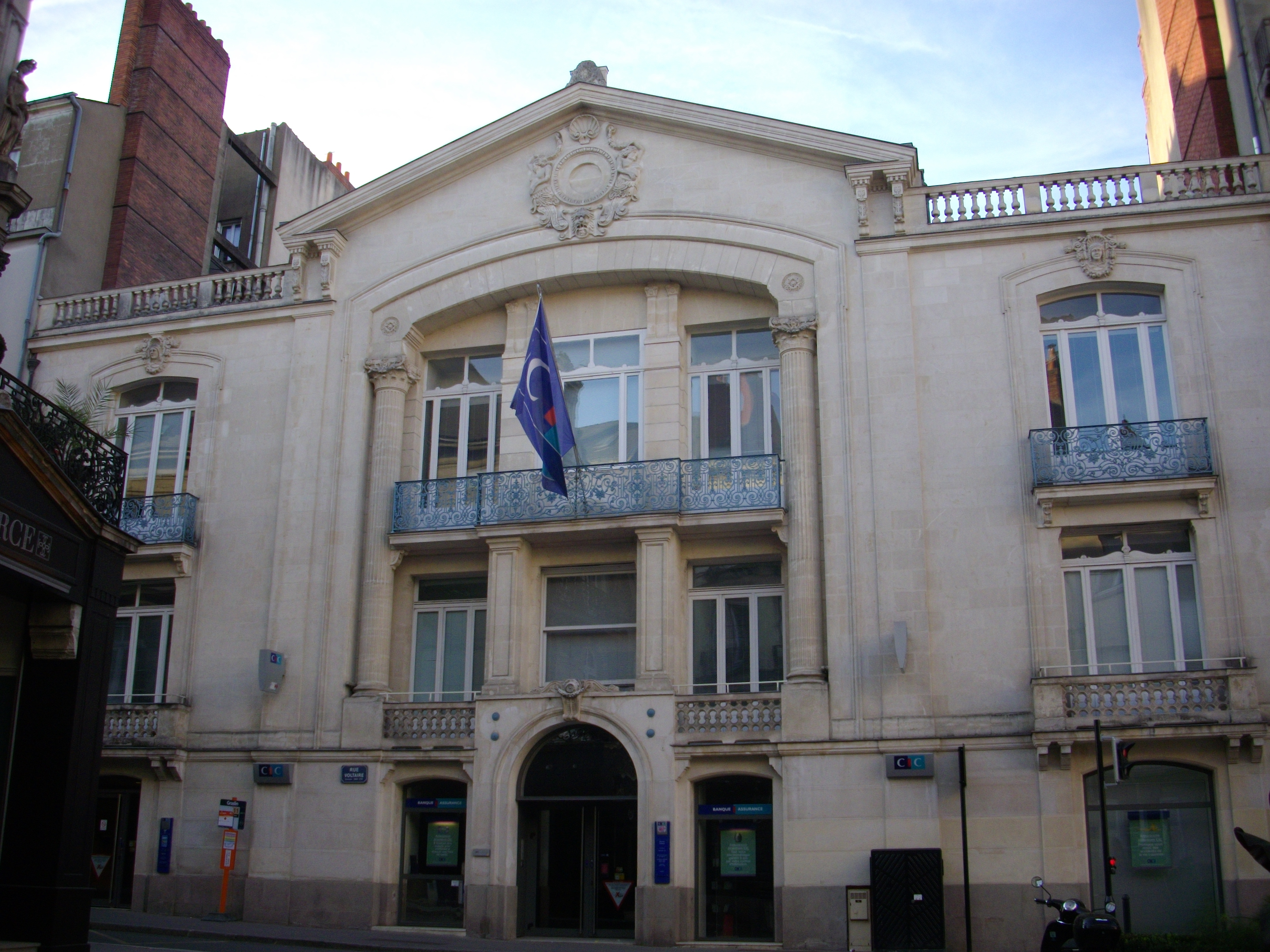 Building, 4 Voltaire street in Nantes (Loire-Atlantique, France)